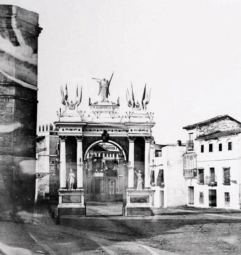 One of the triumphal archs in Seville for the arrival of Queen Isabel II.